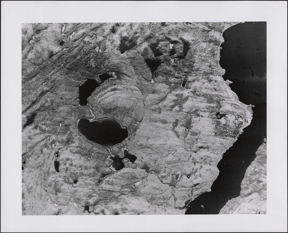 Air photo of Brent Crater. From Meteorite Impact Craters in Canada, 1959-1961, Library and Archives of Canada.